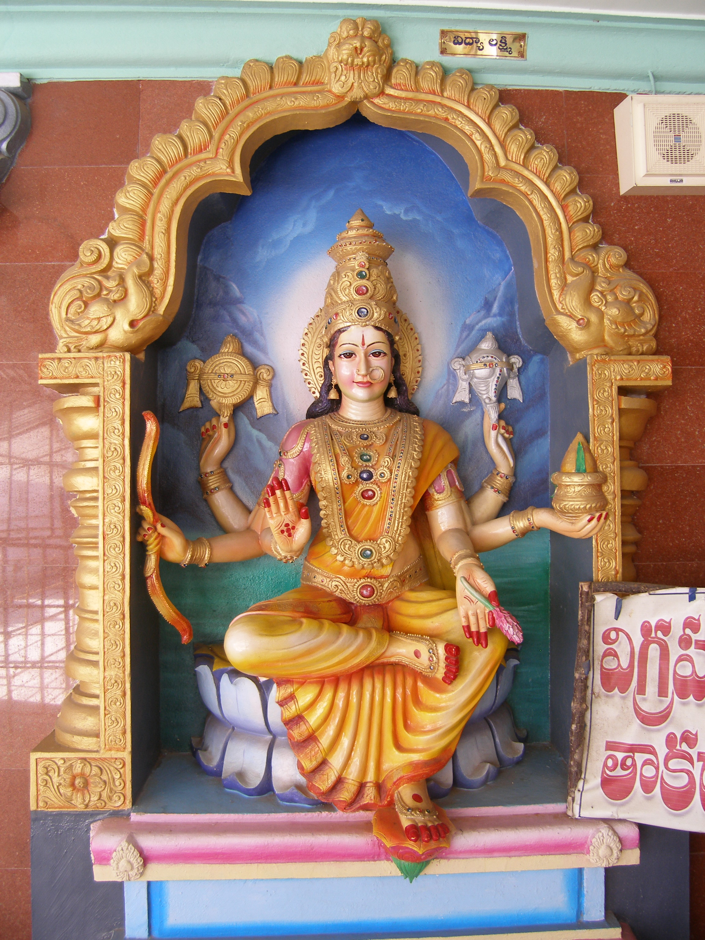 Vidya Laxmi at Narayana Tirumala.